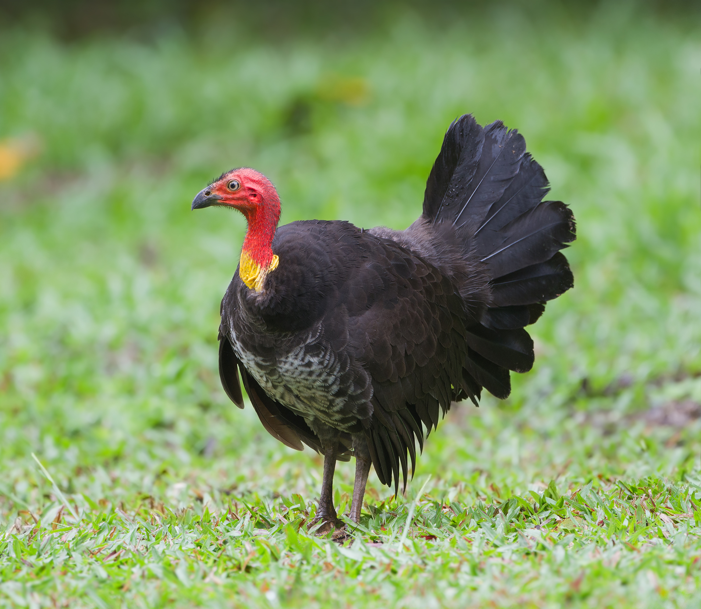 Australian Brush-turkey (Alectura lathami), Centenary Lakes, Cairns, Queensland, Australia